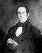 Out-of-copyright image from